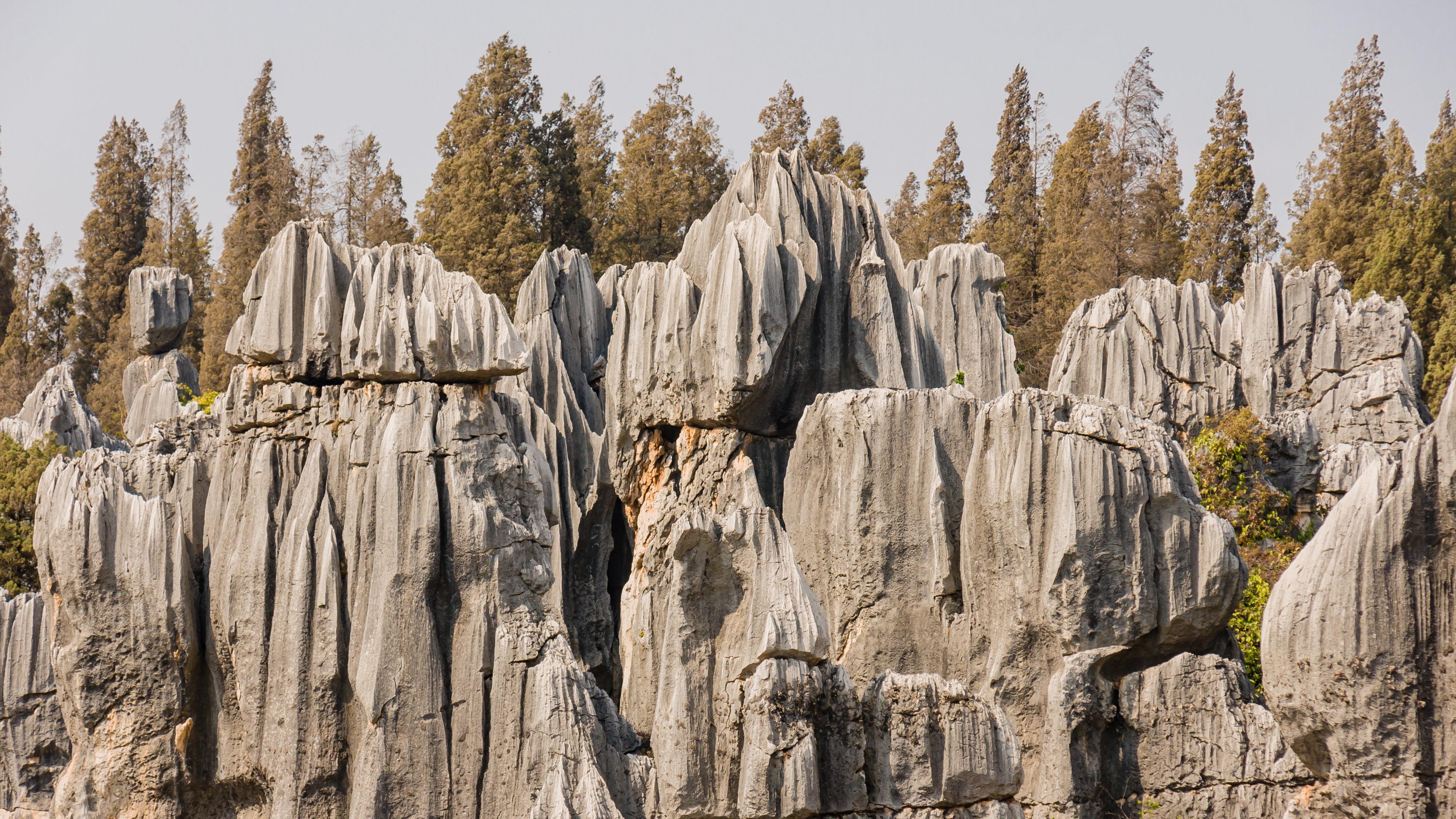 Shilin, Yunnan, China: Stone forest, a set of Karst Limestone rock formations. Part of the UNESCO South China Karst World Heritage Site.